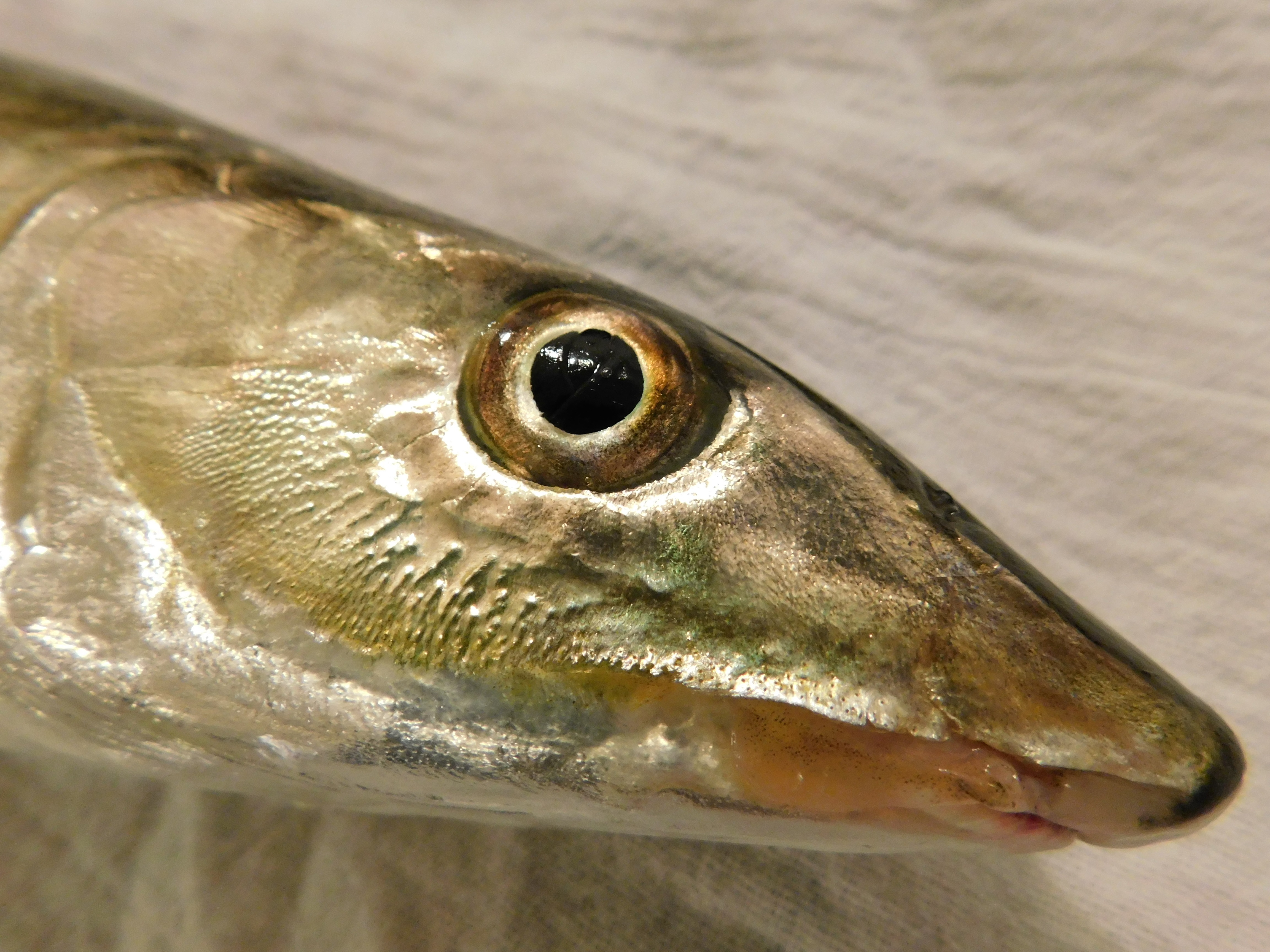 Bonefish, Albula vulpes species complex. The individual is from San Diego Bay, California, USA.